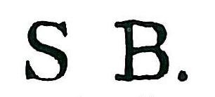 autograph of the painter Sandro Boticelli